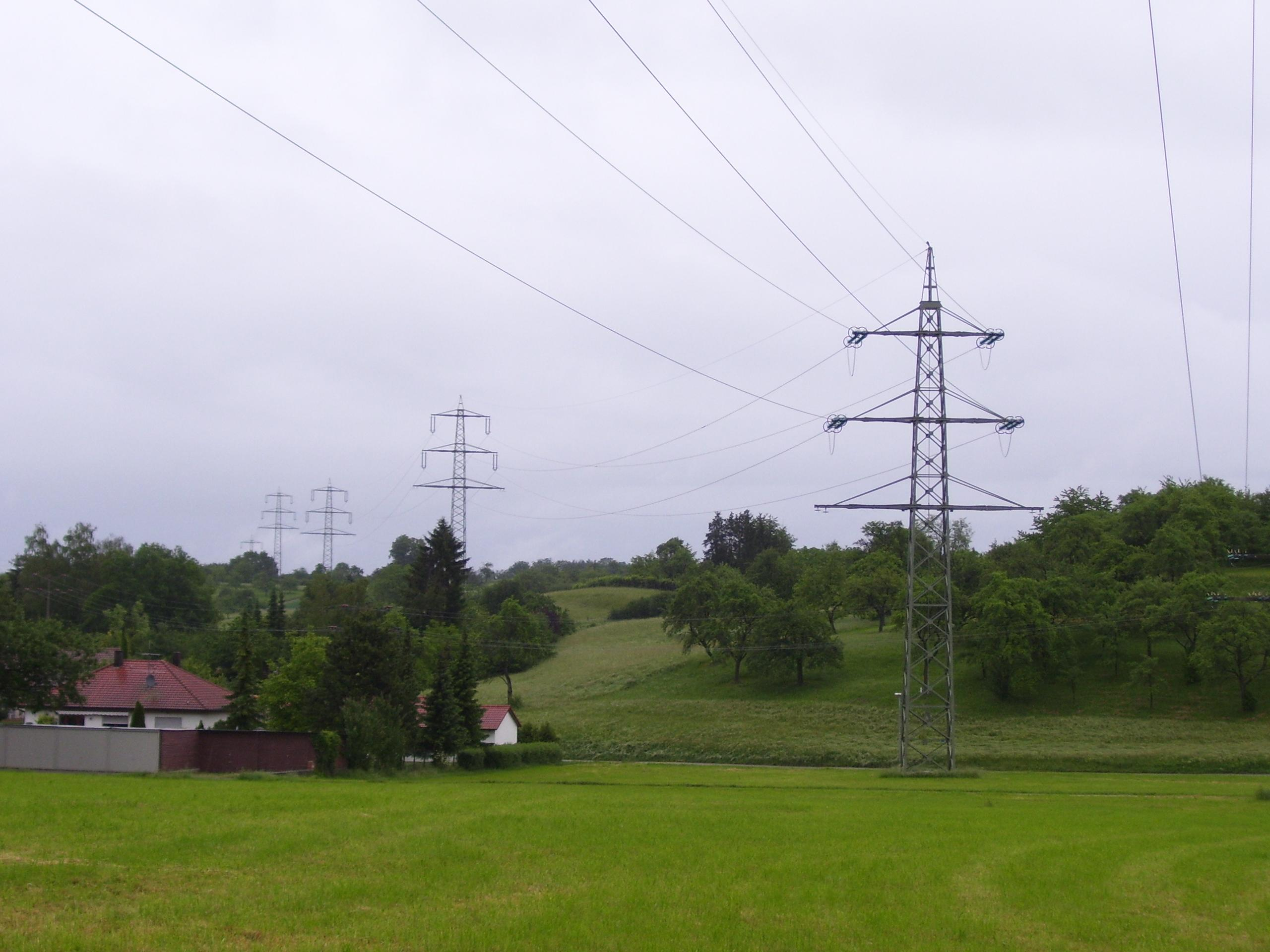 A strainer and some suspension towers of Black Forest Power Line near Bodelshausen, Baden-Württemberg, Germany